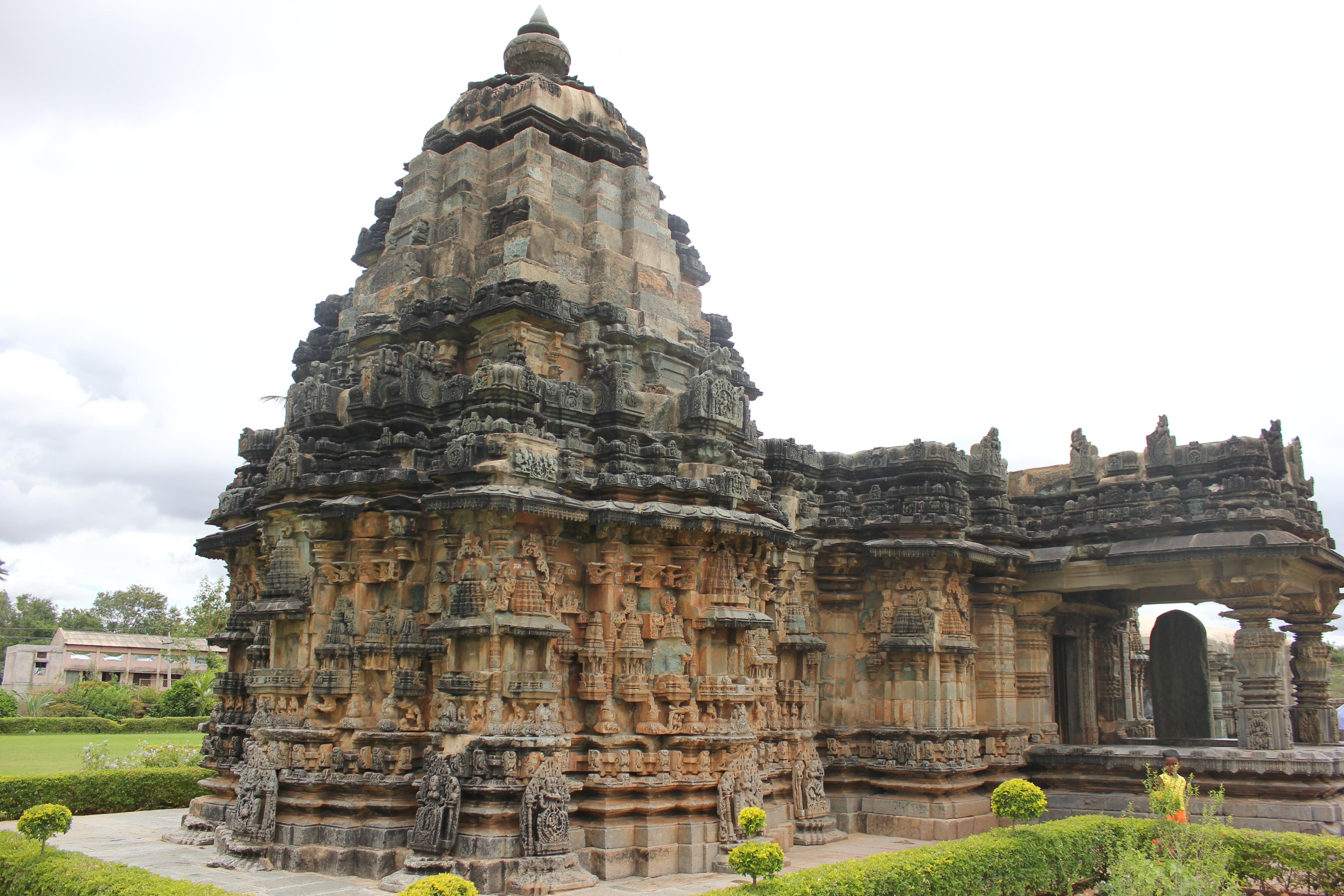 This photograph was taken by me at the Kalleshvara temple (also spelt Kalleshwara or Kallesvara) in Hire Hadagali, Bellary district, Karnataka state, India. The temple construction was started in 1057 AD during the rule of Western (Kalyani) Chalukya King Somesvara I.